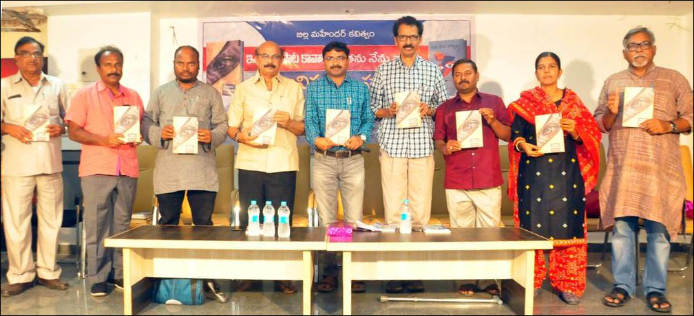 Book Releasing-2